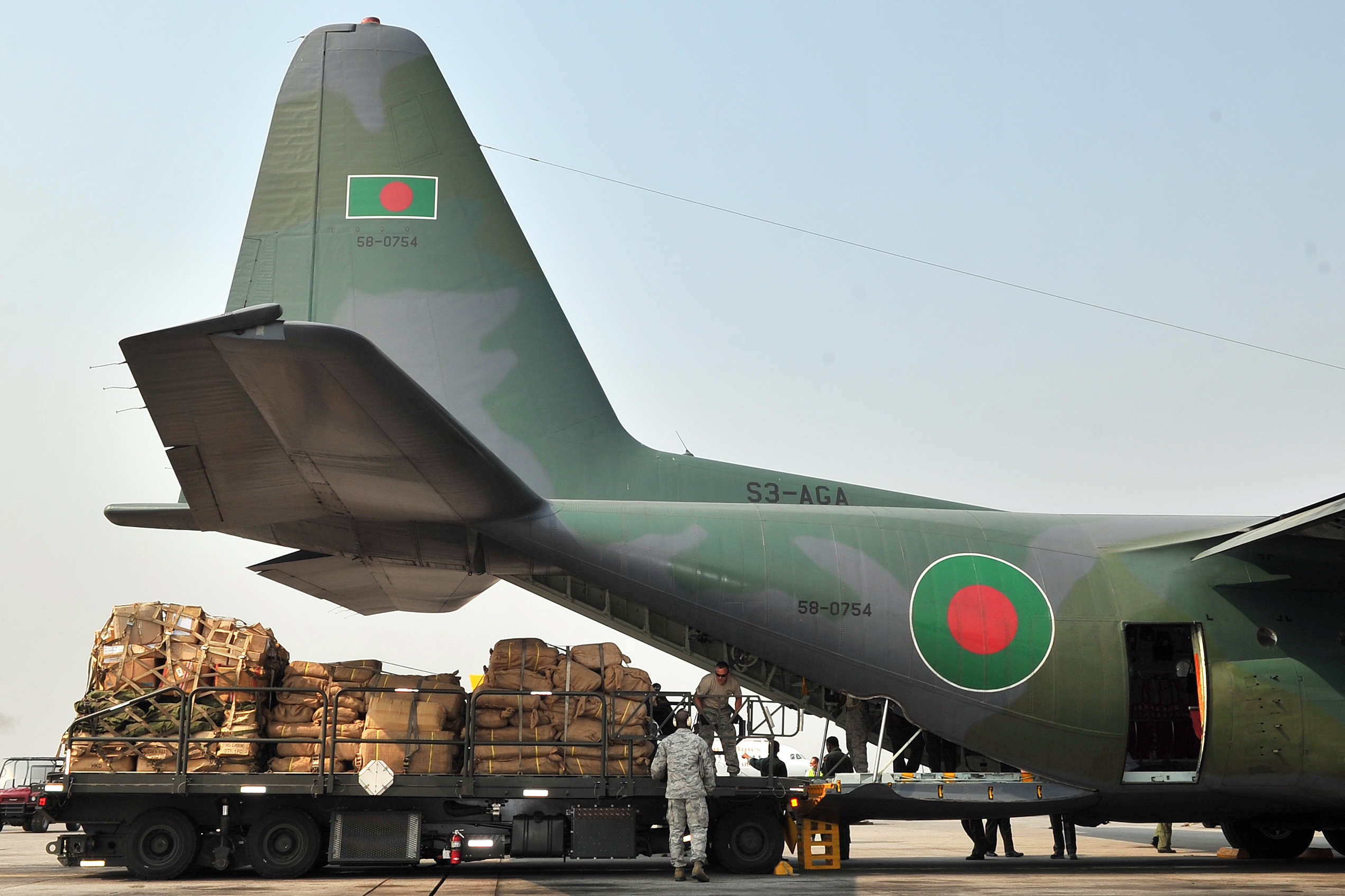 The 36th Contingency Response Group Airmen work with Bangladesh Air Force members to remove cargo from their C-130 Hercules May 7, 2015, at the Tribhuvan International Airport in Kathmandu, Nepal. The Nepalese Army and Airmen worked with military members from the Bangladesh Air Force and Indian Air Force to process cargo from their aircraft arriving in Nepal to provide disaster relief following a magnitude 7.8 earthquake that struck the nation April 25. (U.S. Air Force photo by Staff Sgt. Melissa White/Released)